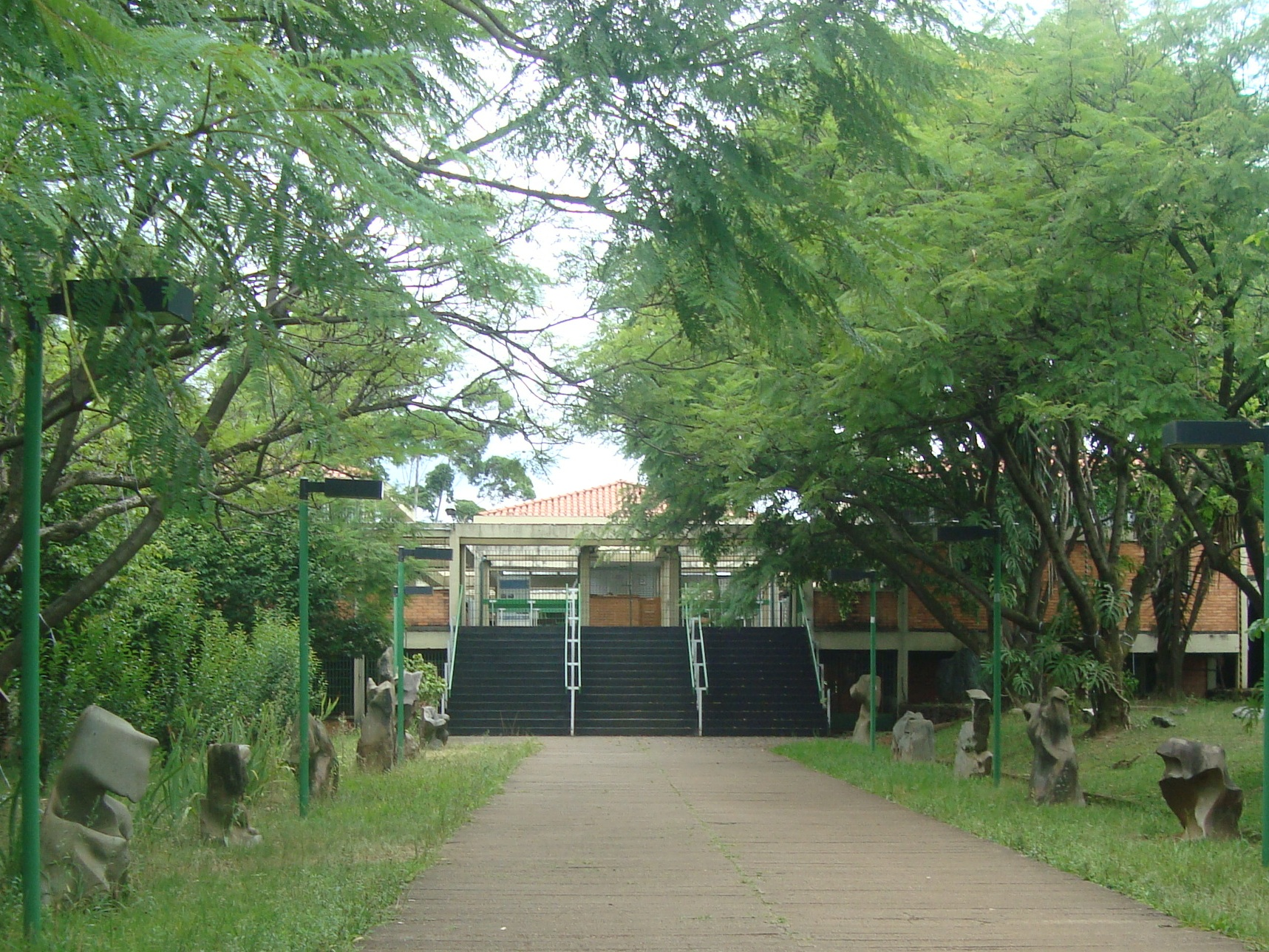 Geology and mining engineering departaments